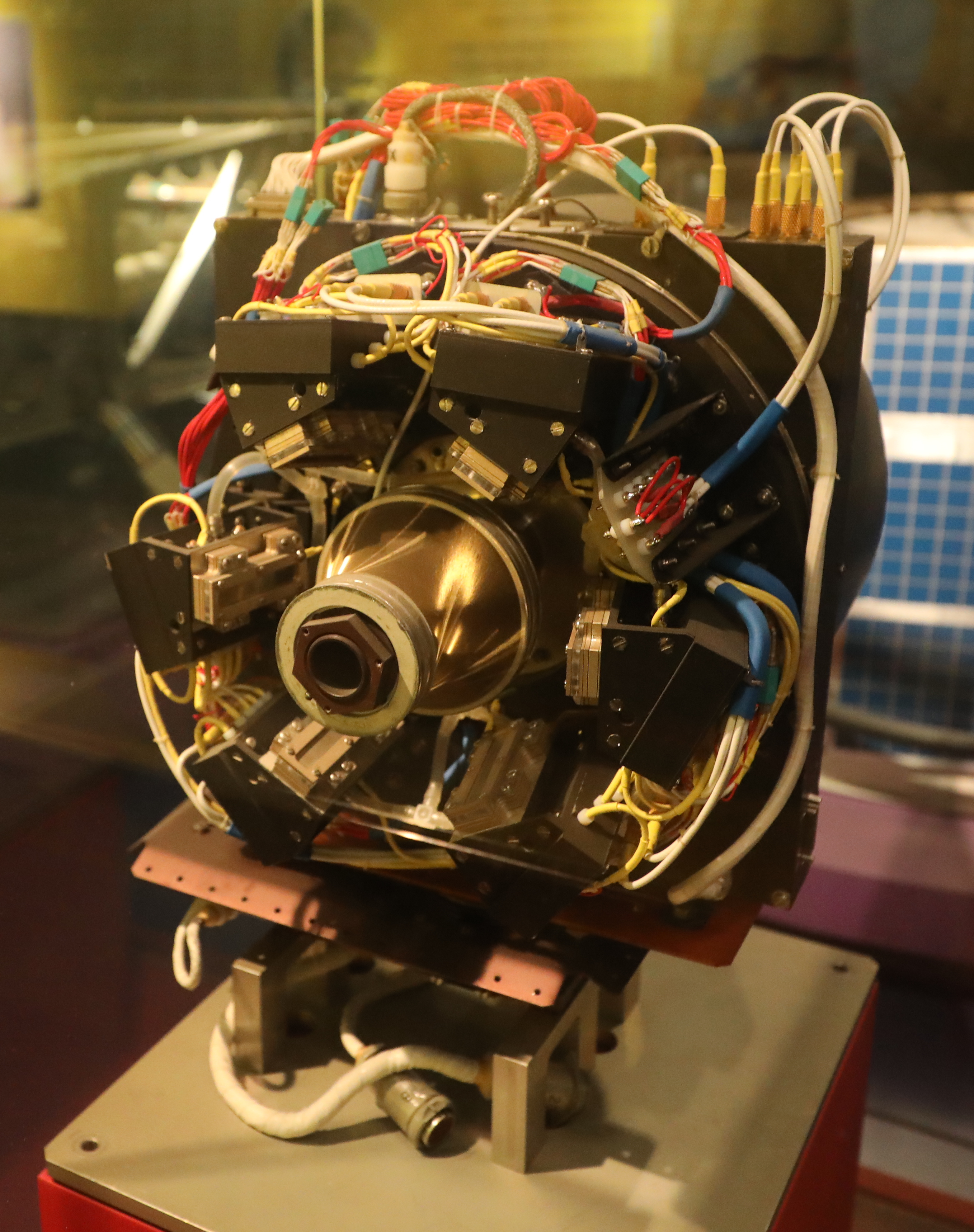 Photo of an engineering model of the FONEMA sensor from the mars 96 spacecraft.